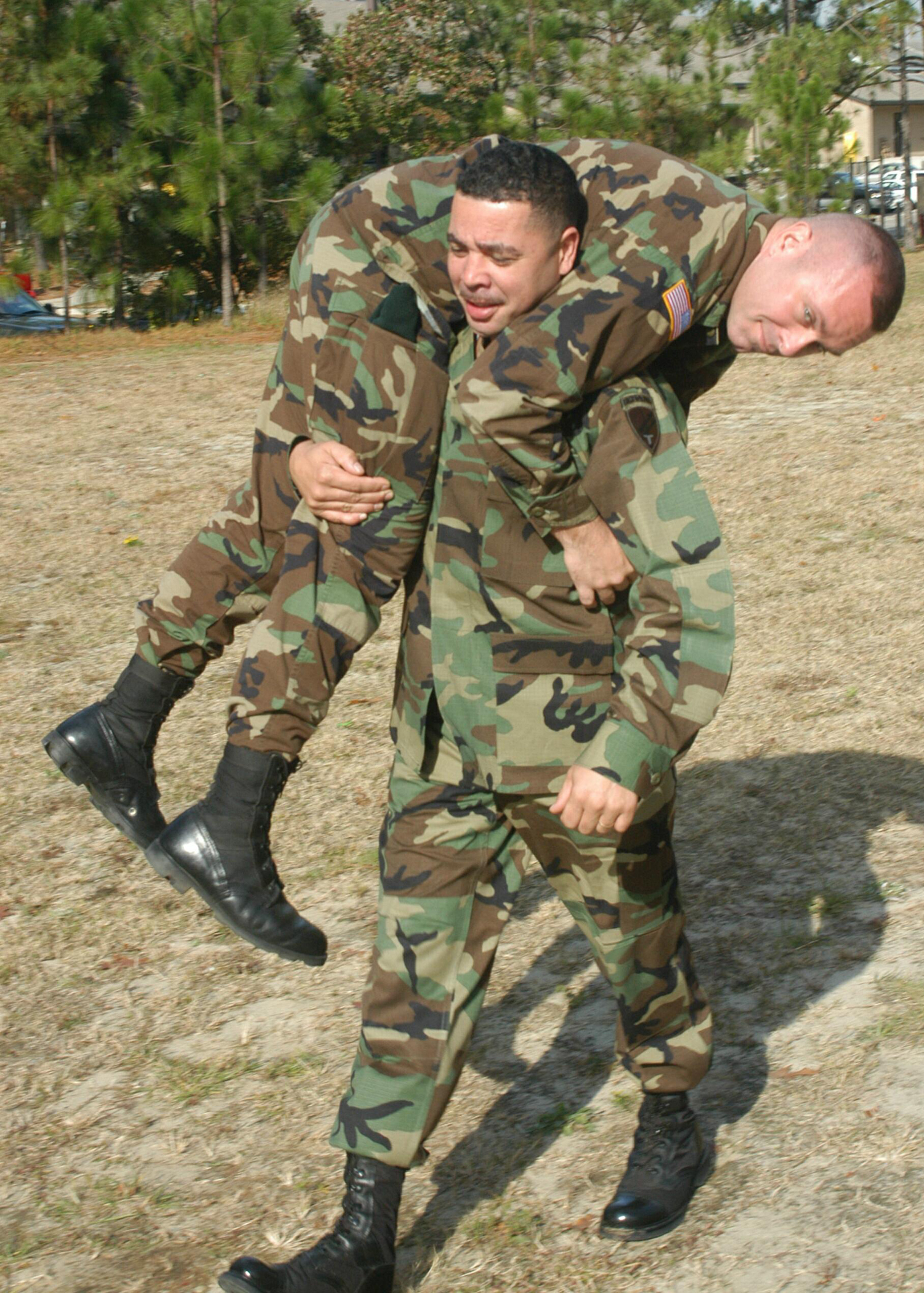 Soldiers assigned to the 96th Civil Affairs Battalion (Airborne) perform the over-the-shoulder fireman's carry during a two-day combat medical training course outside their company headquarters.